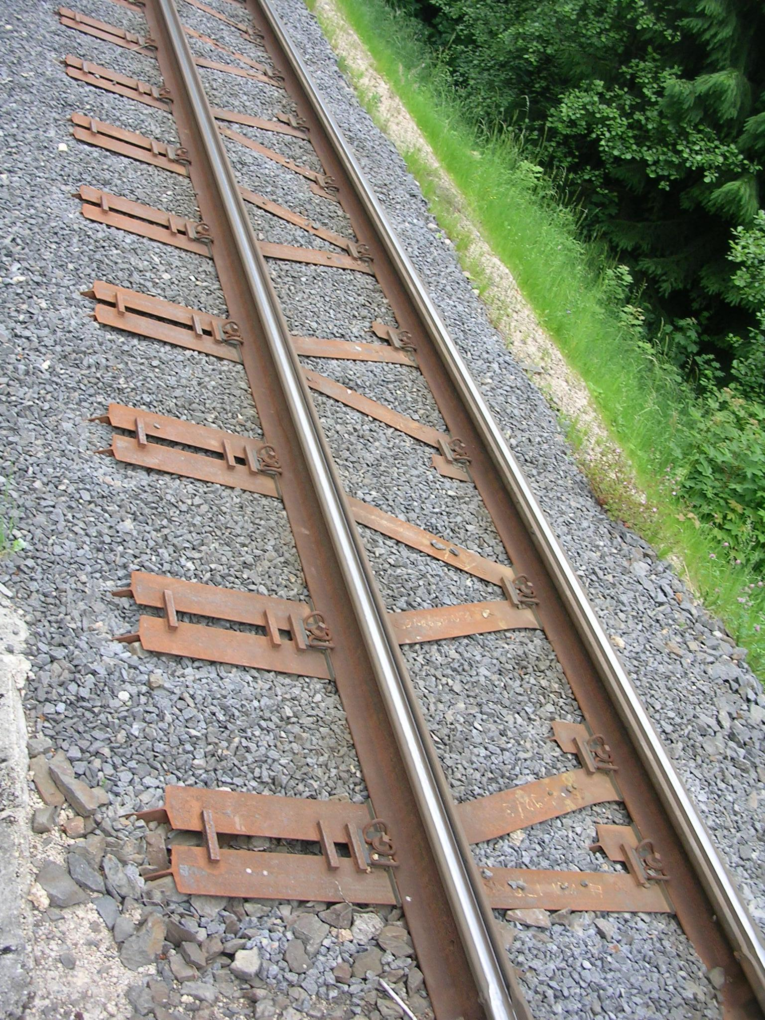 Tramway line between Liberec and Jablonec. The Czech Republic.